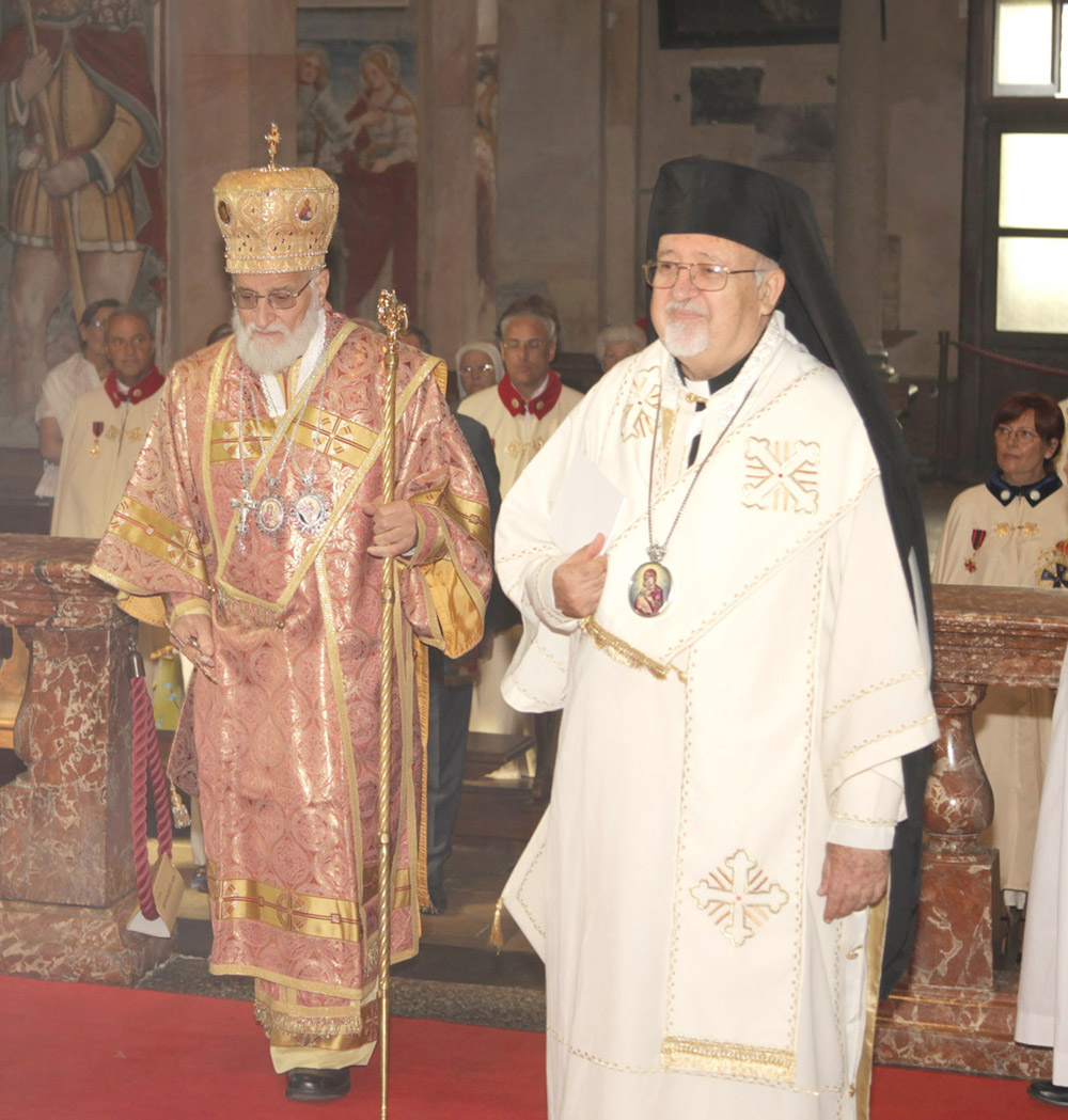 Melkite Patriarch Gregory 3rd and Melchite Archbishop Jules Zerey